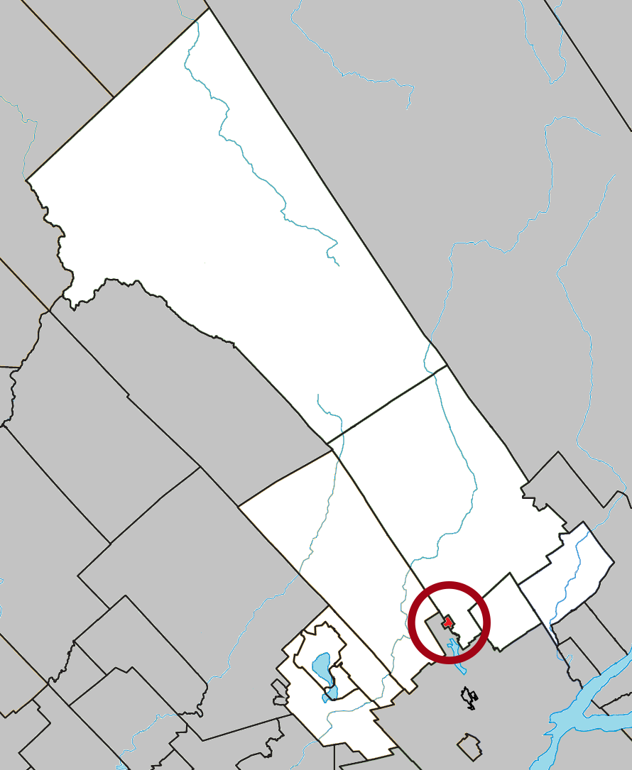 Location of Lac-Delage, Quebec within La Jacques-Cartier Regional County Municipality.